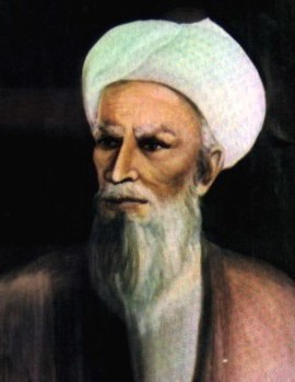 Muhammed ibn Zakariya al-Razi. Also known as Razis or Rhazes. Persian philosopher and physician.